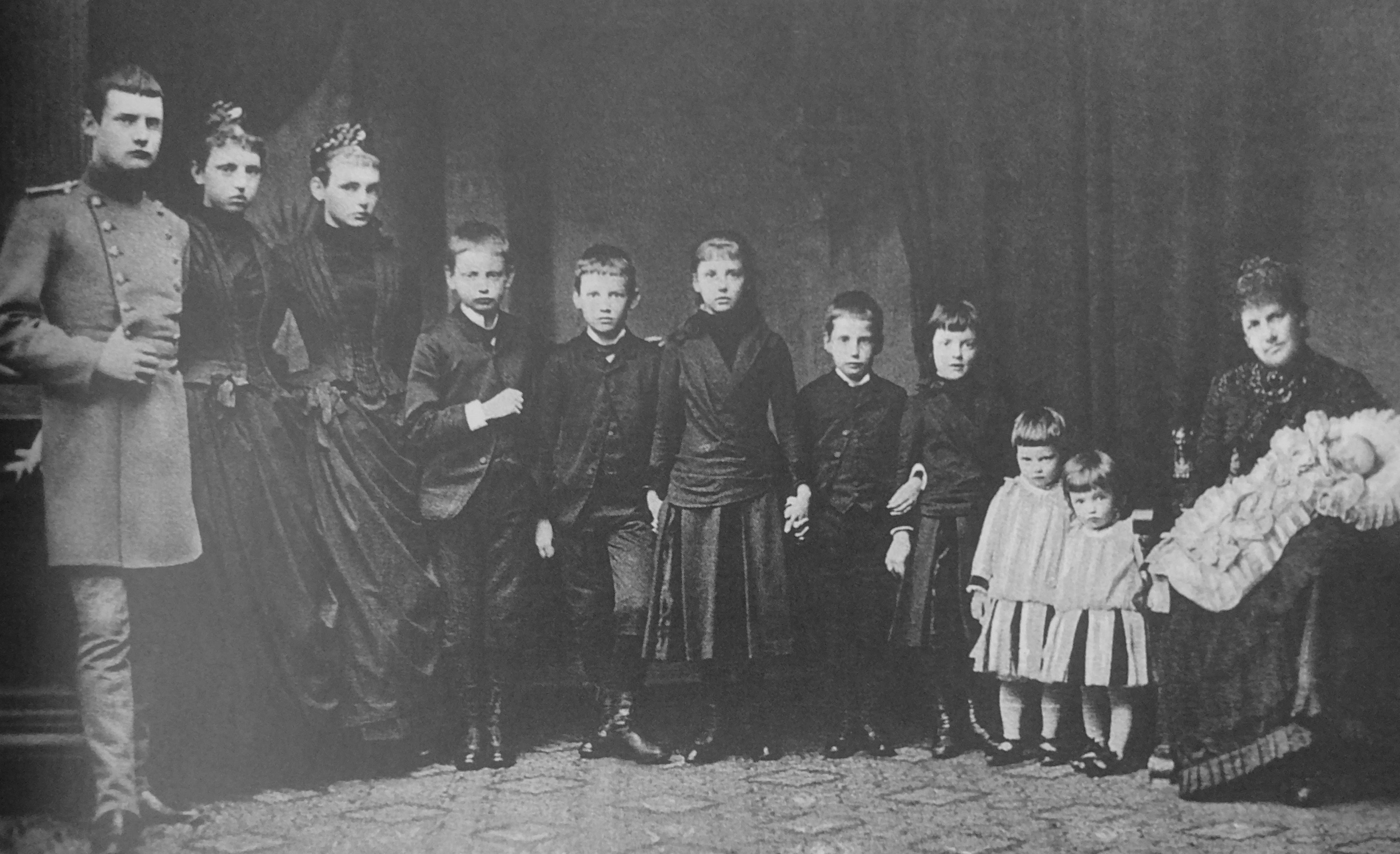 Queen Maria Theresa of Bavaria with her 11 children: Rupprecht, Adelgunde, Maria, Karl, Franz, Mathilde, Wolfgang, Hildegarde, Wiltrud, Helmtrud and Dietlinde From left: Crown Prince Rupprecht, Princess Adelgunde, Princess Marie, Prince Karl, Prince Franz, Princess Mathilde, Prince Wolfgang, Princess Hildegard, Princess Wiltrud, Princess Helmtrud and Queen Maria Theresa with Princess Dietlinde. Princess Dietlinde died at age one and one more princess, Gundelinde, was born after that.